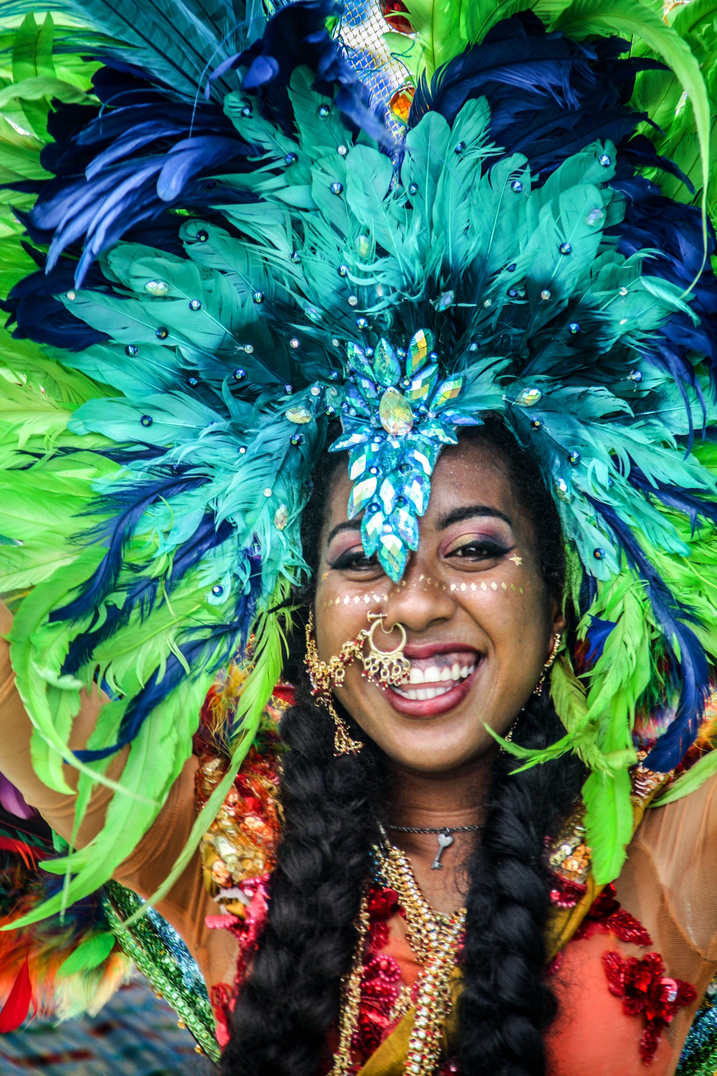 Junior Parade, Trinidad & Tobago